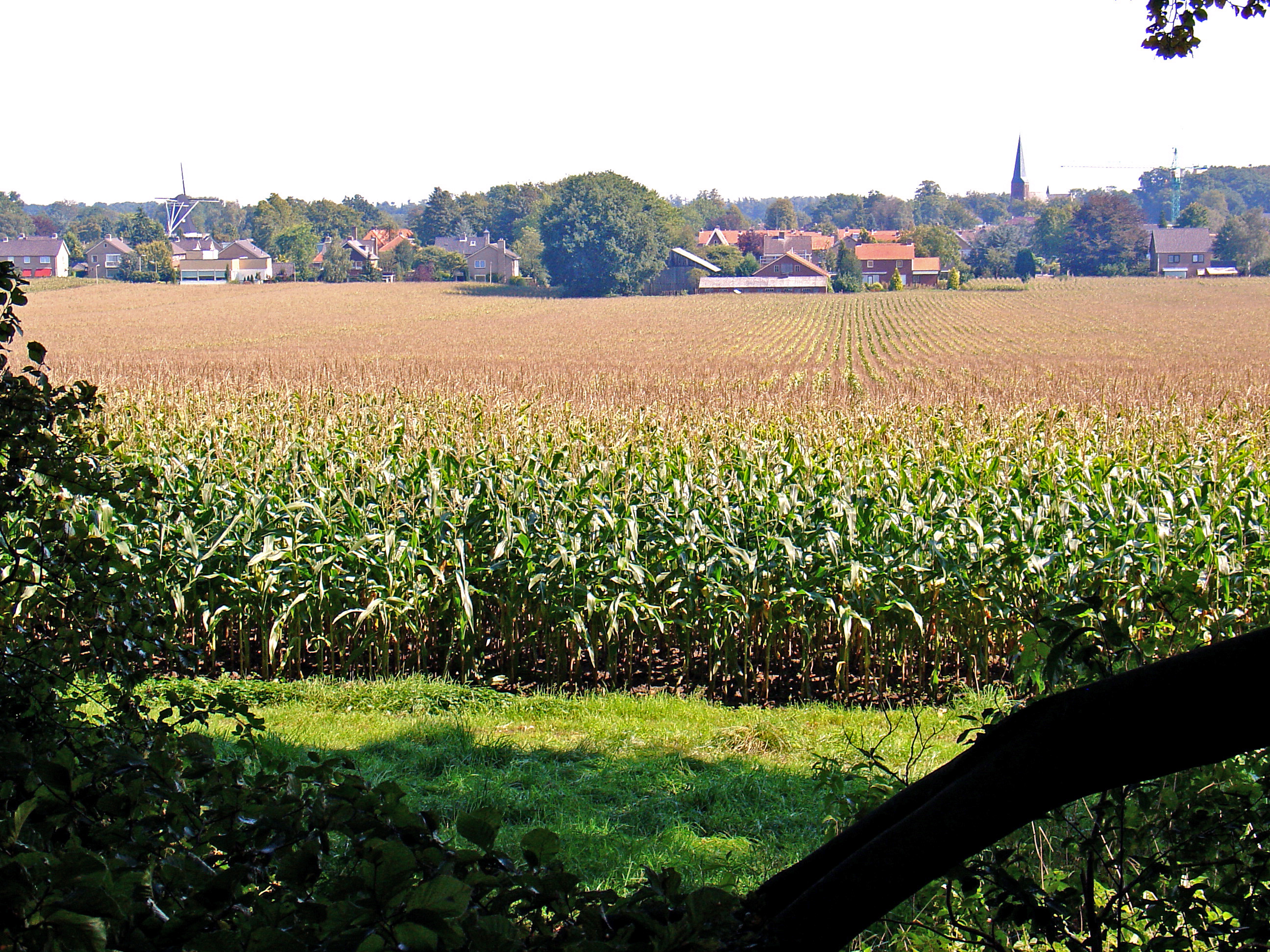 View of Hellendoorn from the west